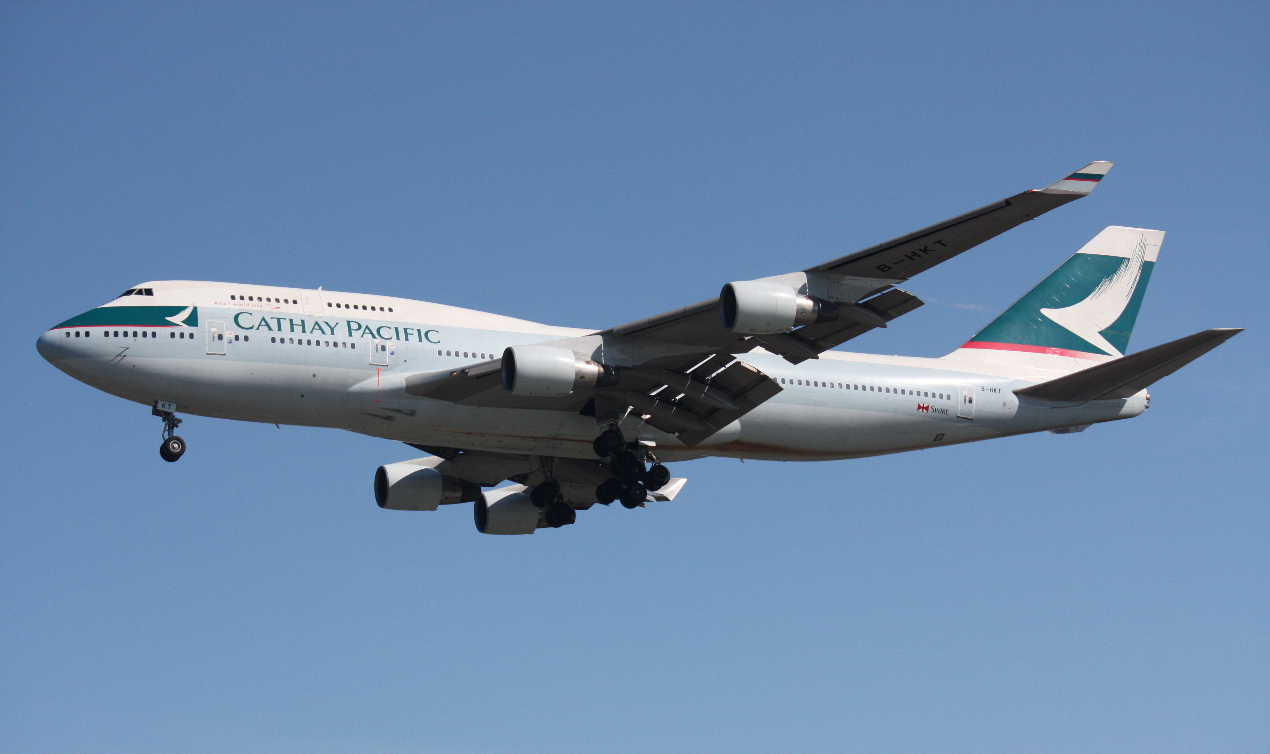 A Cathay Pacific Boeing 747-412 landing at Vancouver International Airport